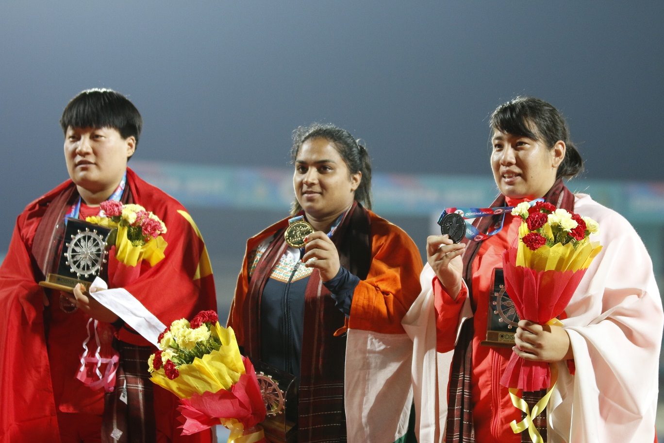 Manpreet Kaur Won Gold For India. China's Guo Tianqian Won Silver And Japan's Aya Ota Won The Bronze Medal. Athletes during 22nd Asian Athletics Championships in Bhubaneswar.